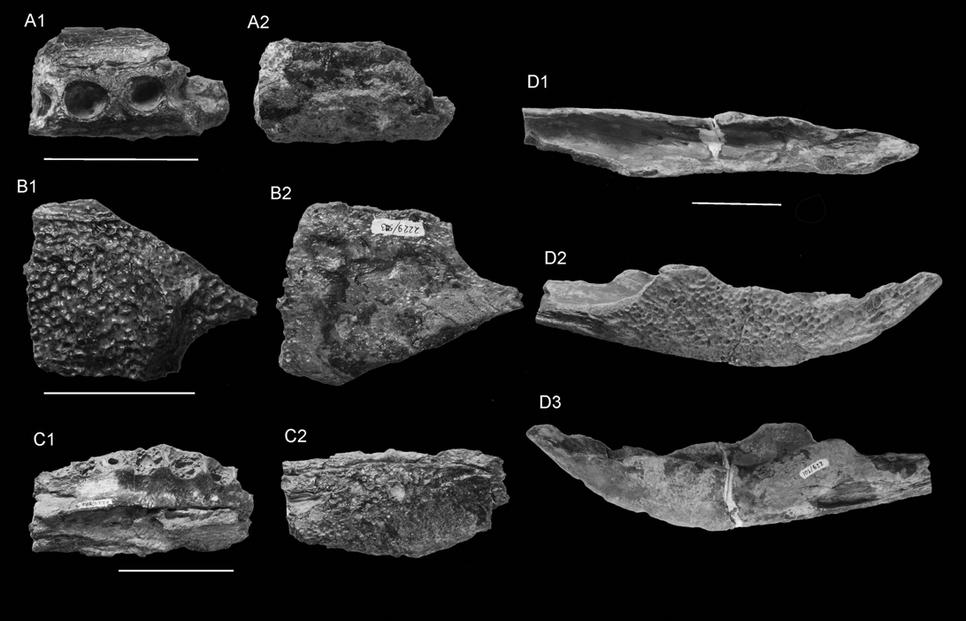 Material formerly attributed to Turanosuchus aralensis. A. Section of left dentary (PIN 2229‒506), including two complete and two incomplete alveoli in dorsal (A1) and lateral (A2) aspects. B. Dermal osteoderm (PIN 2229‒503) in dorsal (B1) and ventral (B2) aspects. C. Fragmented right maxilla (PIN 2229‒502), demonstrating the sinusoidal condition also seen in PIN 4174‒1 in ventral (C1) and dorsal (C2) aspects. D. Posterior portion of left mandible (PIN 2229‒501) in dorsal (D1), lateral (D2), and medial (D3) aspects. Scale bars are 5cm.